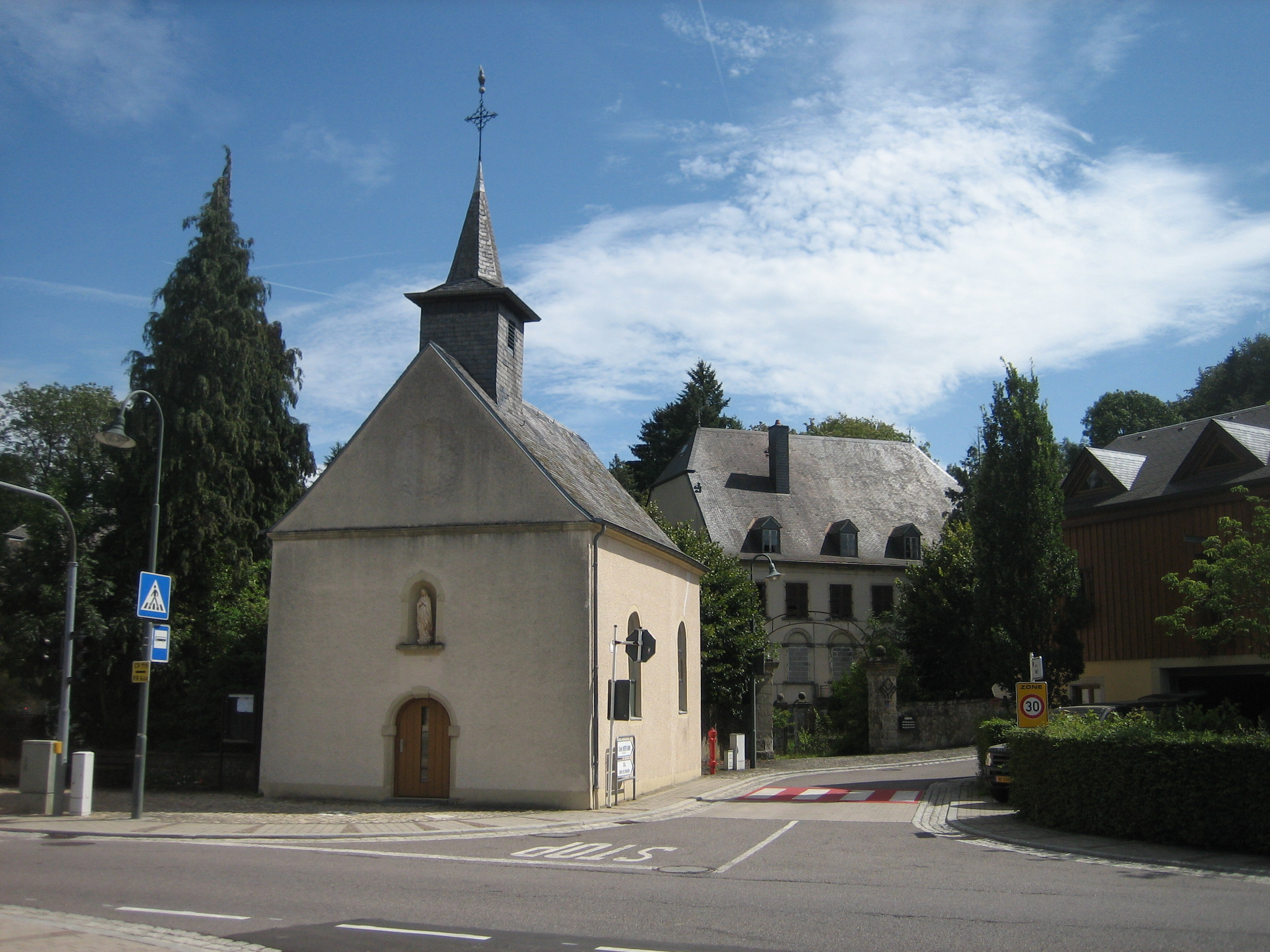 The chapel in Eisenborn, Luxembourg; listed as inventaire supplémentaire of cultural heritage monuments since 5 november 2002.